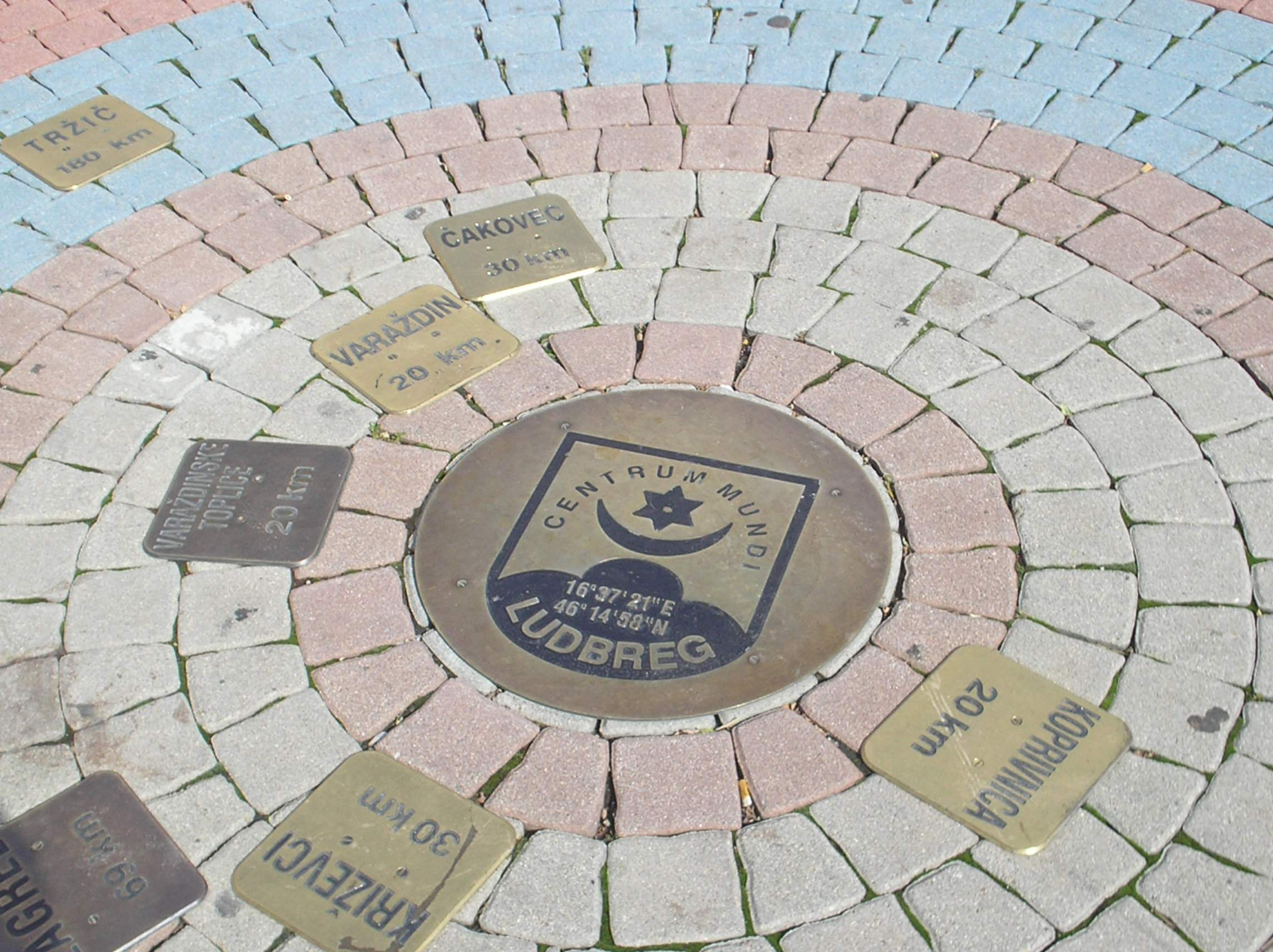 Centrum mundi, Ludbreg, Croatia